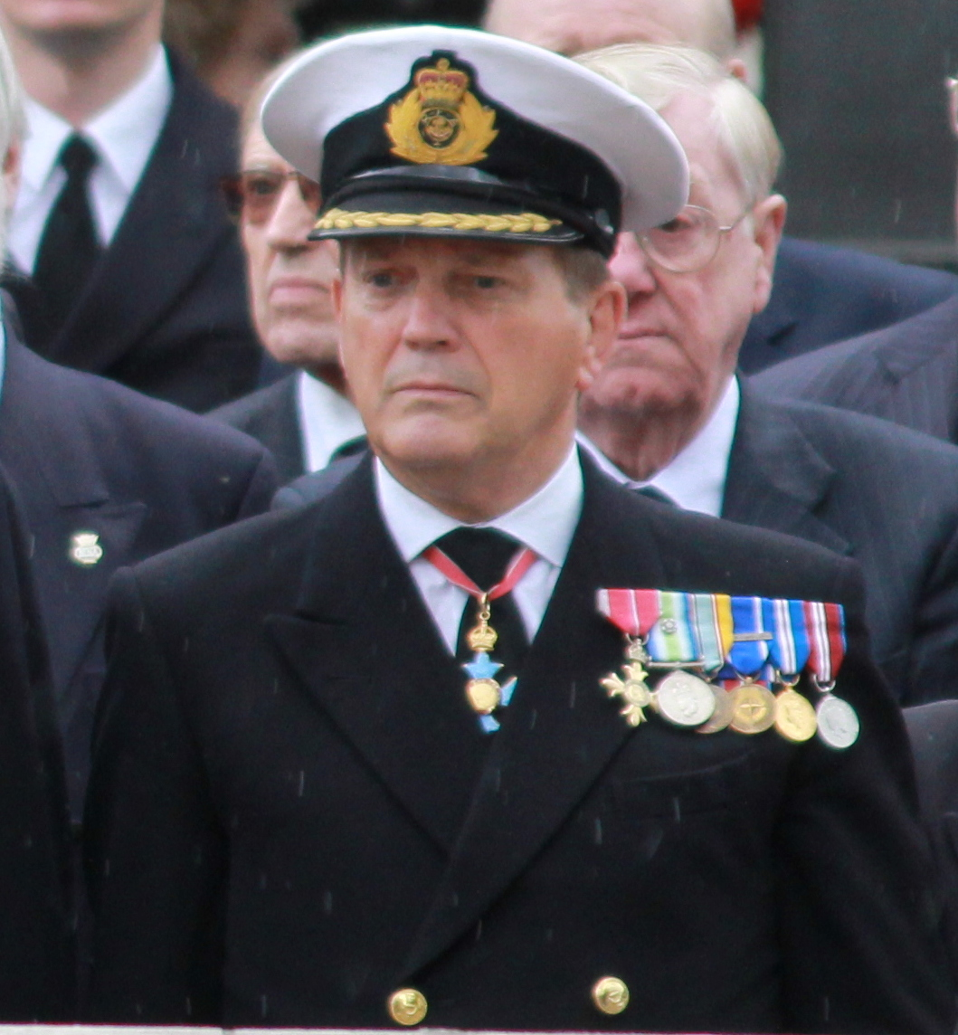 2013 Merchant Navy Day Commemorative Service and Reunion - in the centre from left to right are former First Sea Lord Admiral the Right Honourable Baron West of Spithead, The First Sea Lord Admiral Sir George Michael Zambellas and Commodore Bill Walworth (Commodore Royal Fleet Auxiliary).